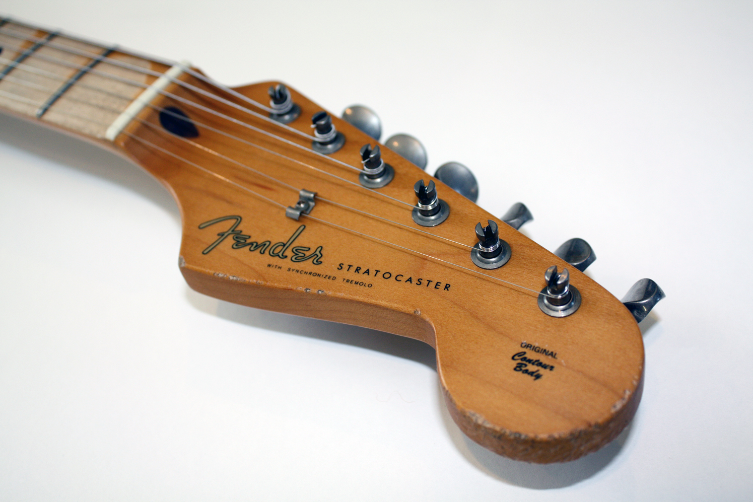 Fender Road Worn 50s Stratocaster